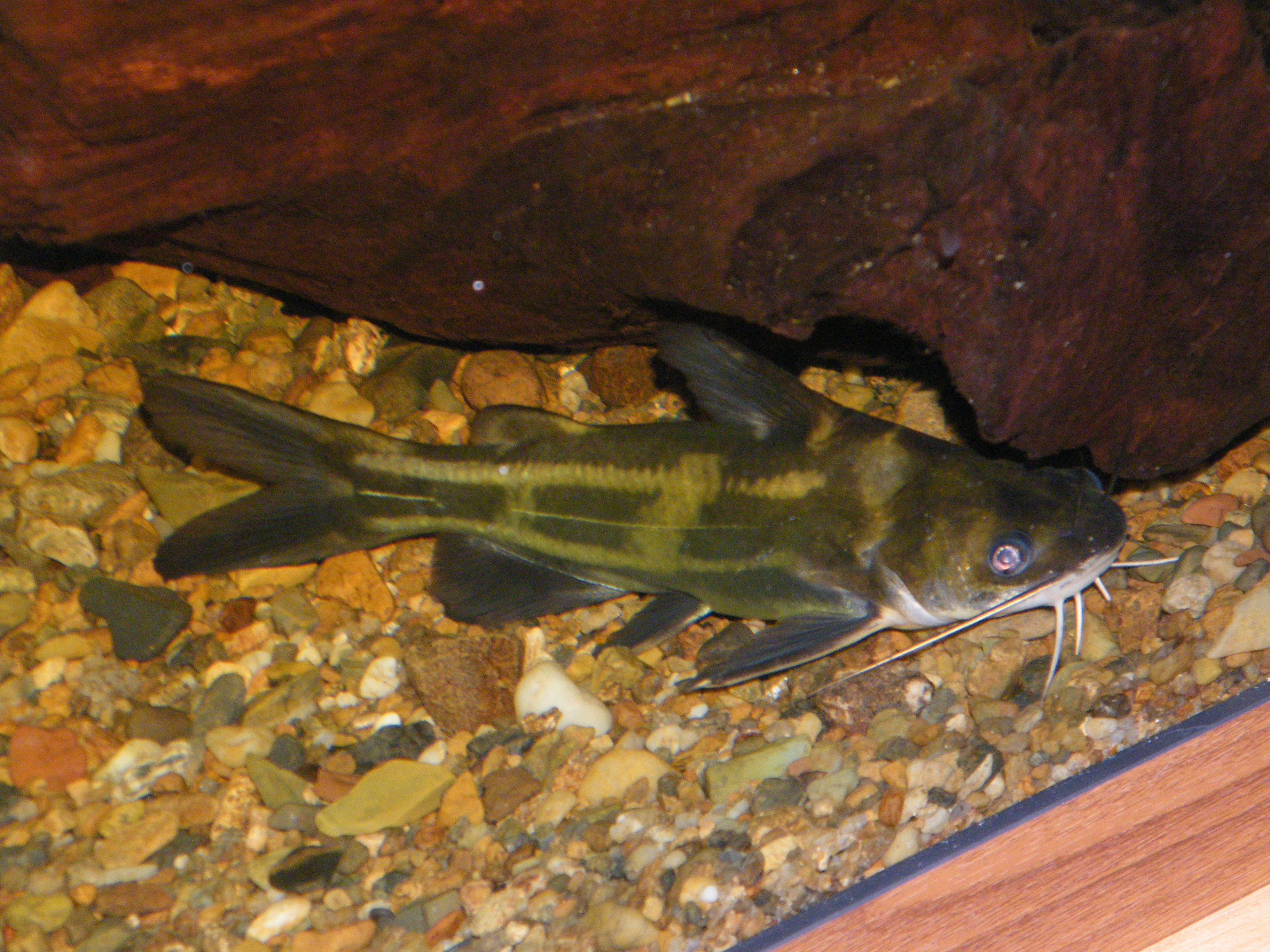 Rita rita